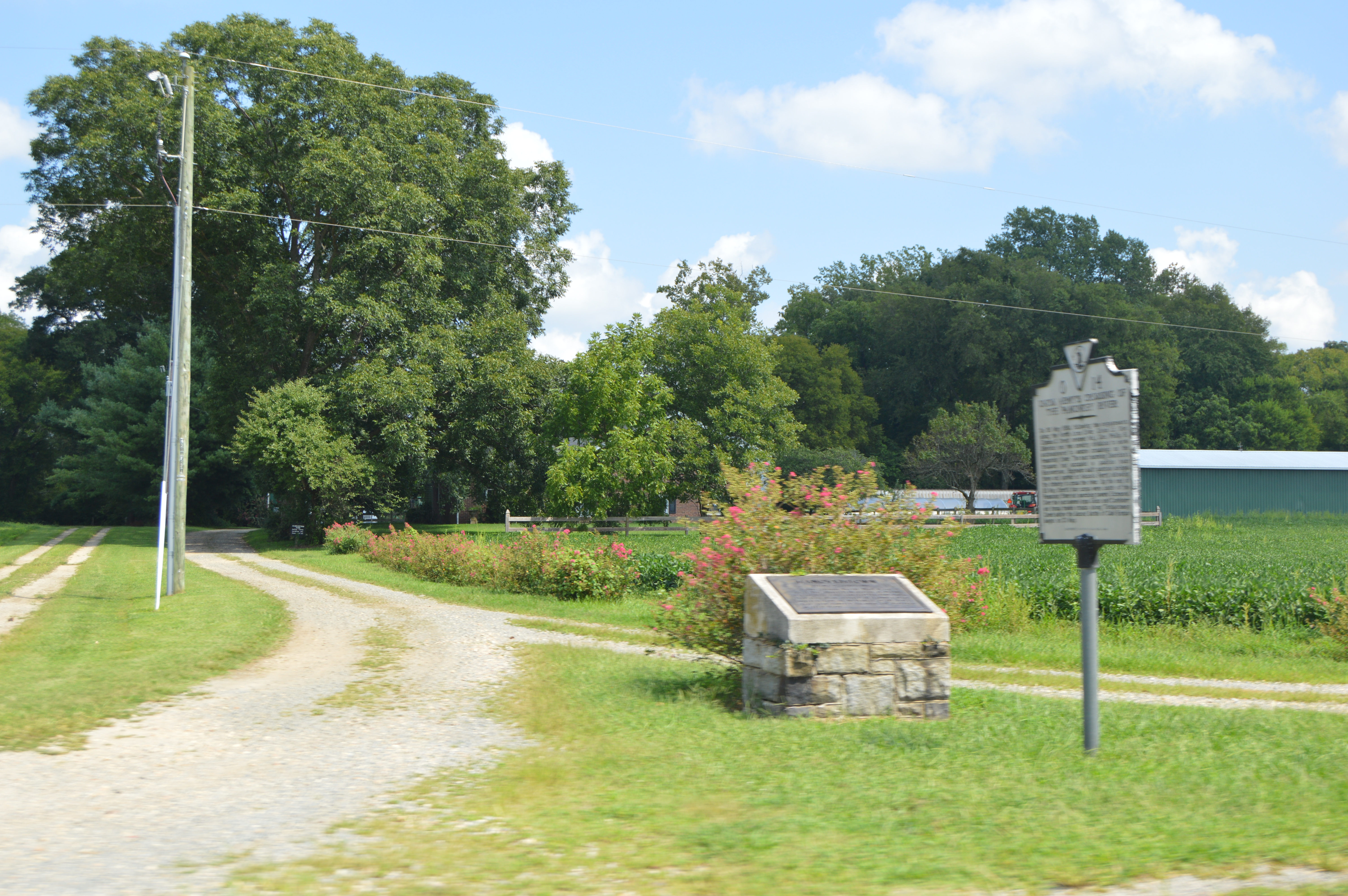 Overview of the site of Hanover Town, located between River Road and the Pamunkey River in eastern Hanover County, Virginia, United States. Founded in the late 17th century and abandoned after independence, the townsite is now an archaeological site and listed on the National Register of Historic Places.